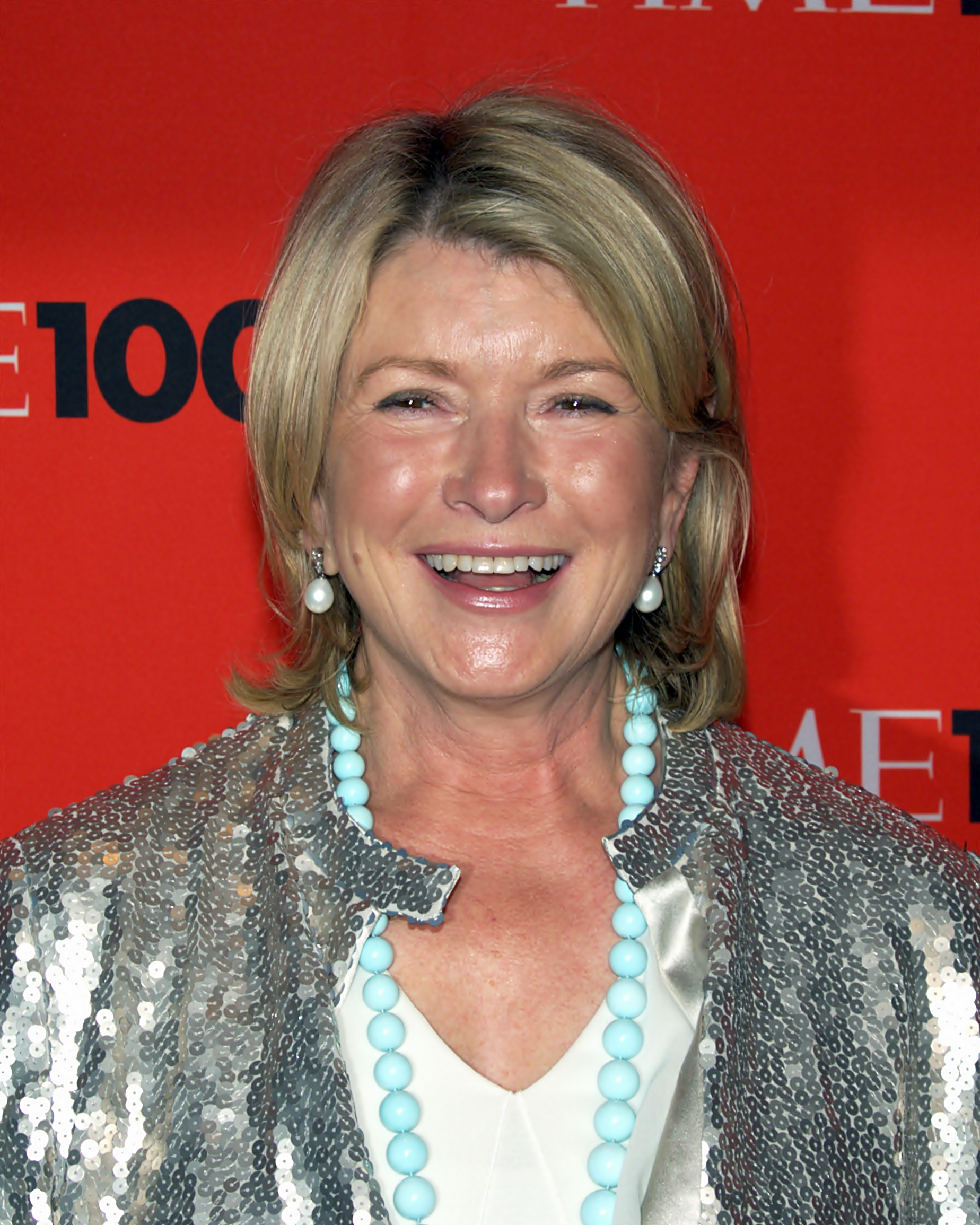 Time 100 Shankbone post - stars and people who matter